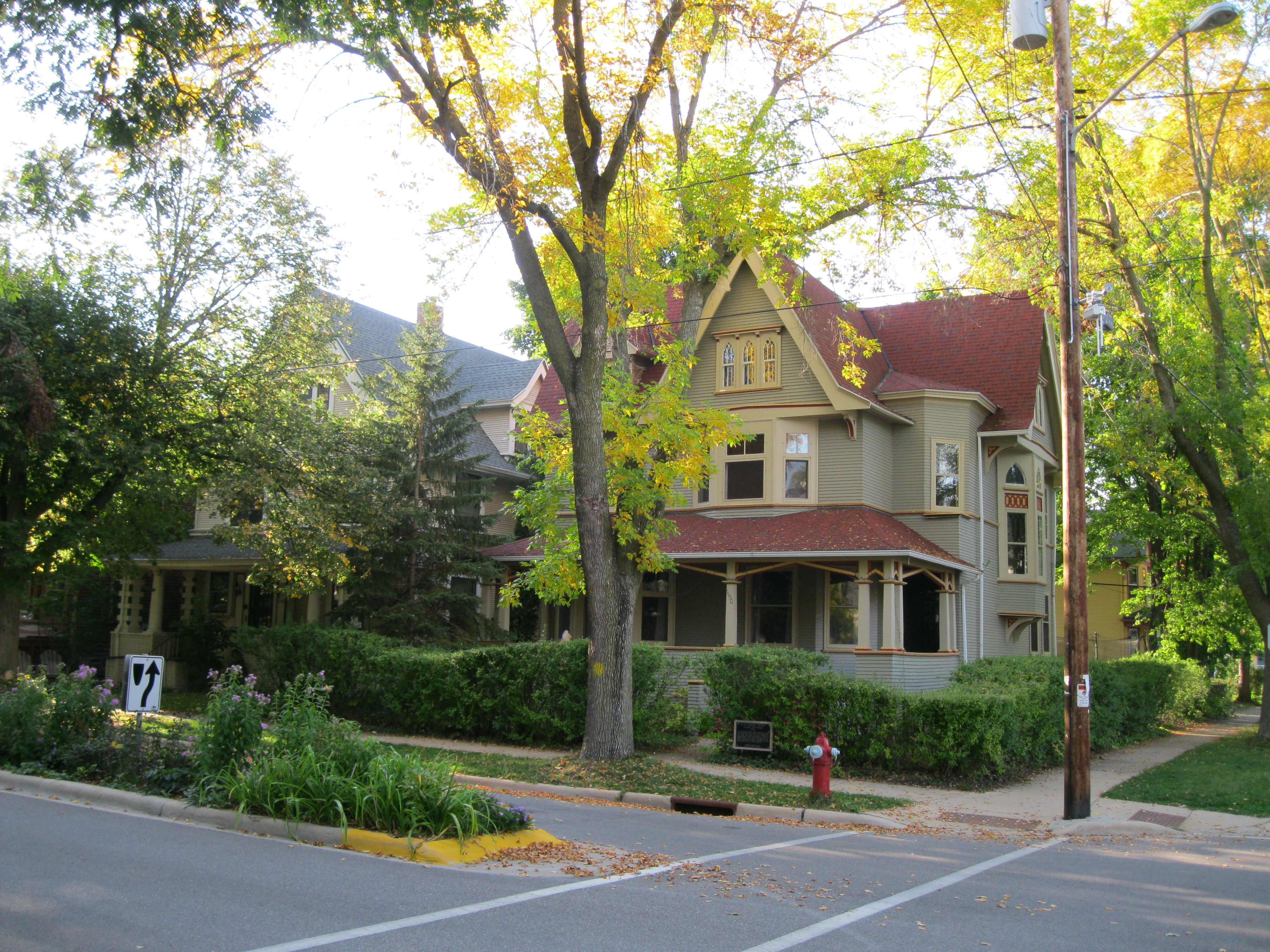 Houses on the northwest corner of Spaight St. and Few St. in the Orton Park Historic District in Madison, Wisconsin.